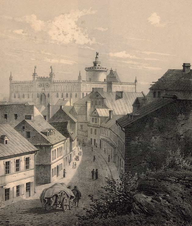 The Lublin castle in 1860, a lithograph by Adam Lerue